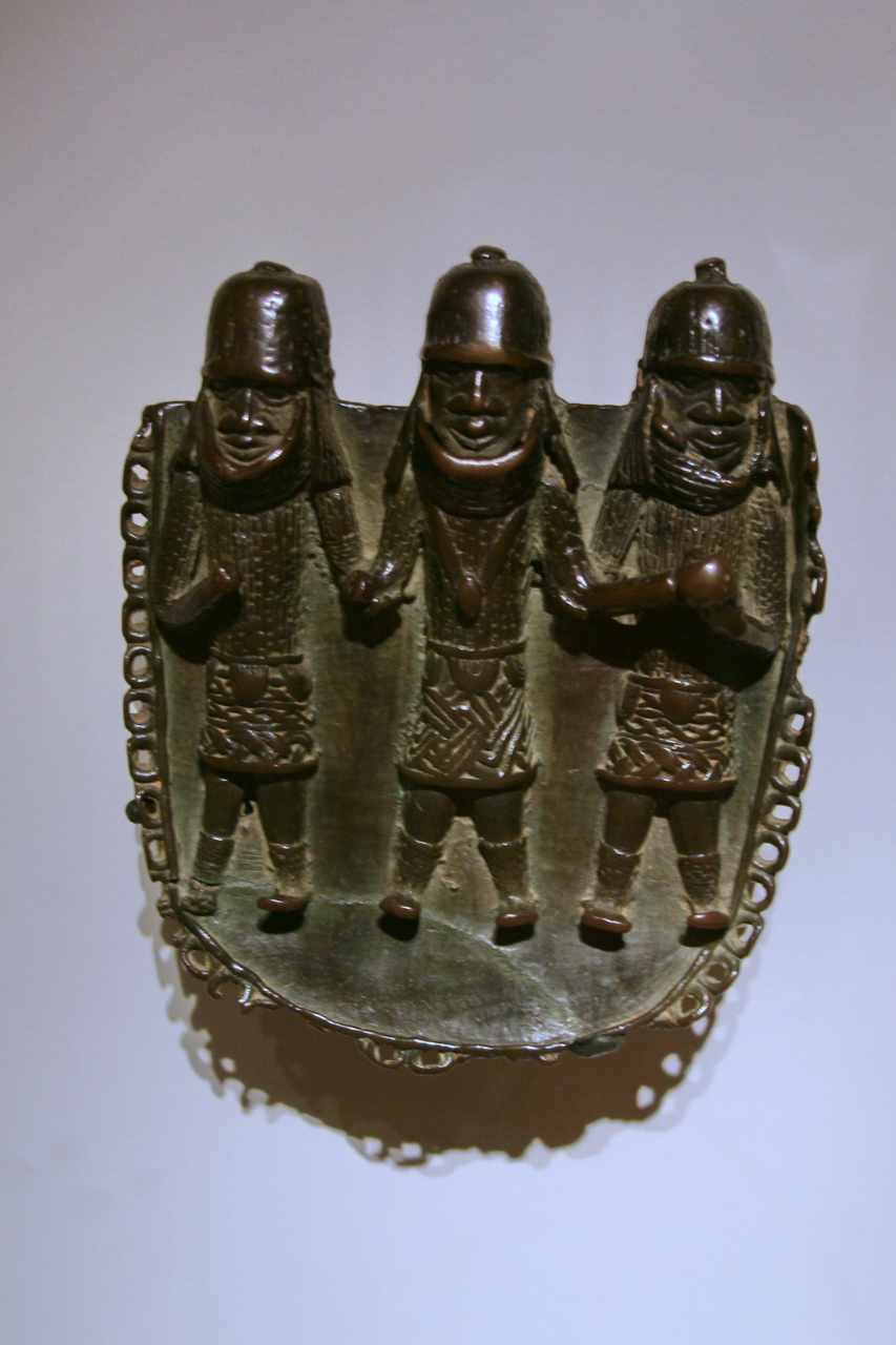 Pendant, Edo peoples, Benin Kingdom, Nigeria, Mid 16th-mid 17th century, Copper alloy Pendants, worn on the hips display a variety of human and animal images. In Benin art, as well as in contemporary court ceremonies, an oba is frequently seen flanked and supported by two attendants. (National Museum of African Art)